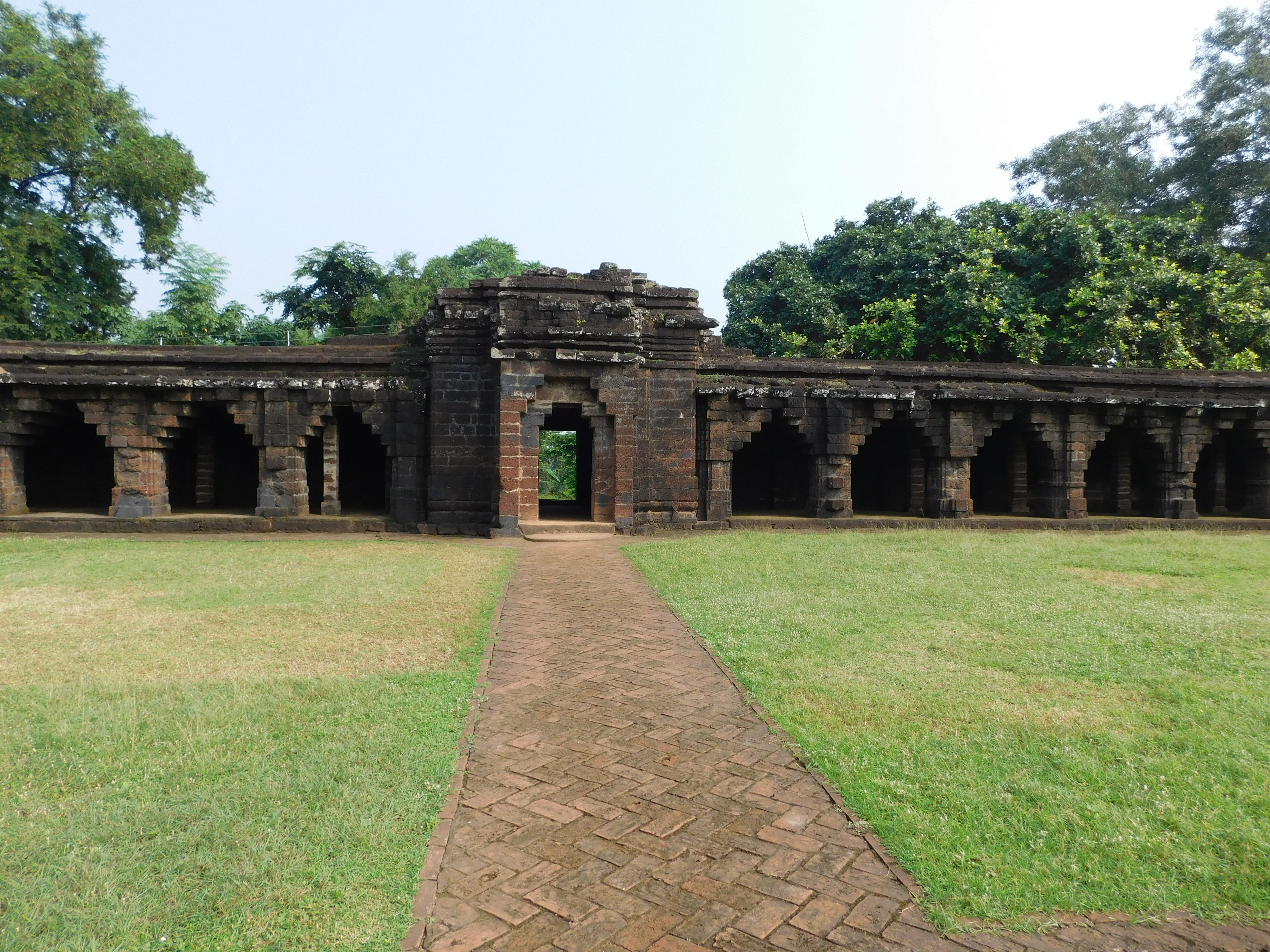 Kurambera Fort